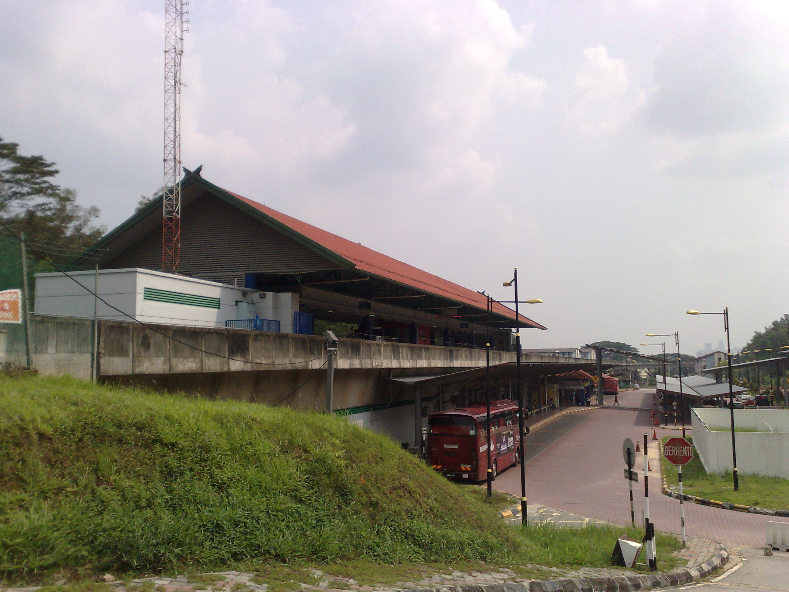 Gombak LRT - 2